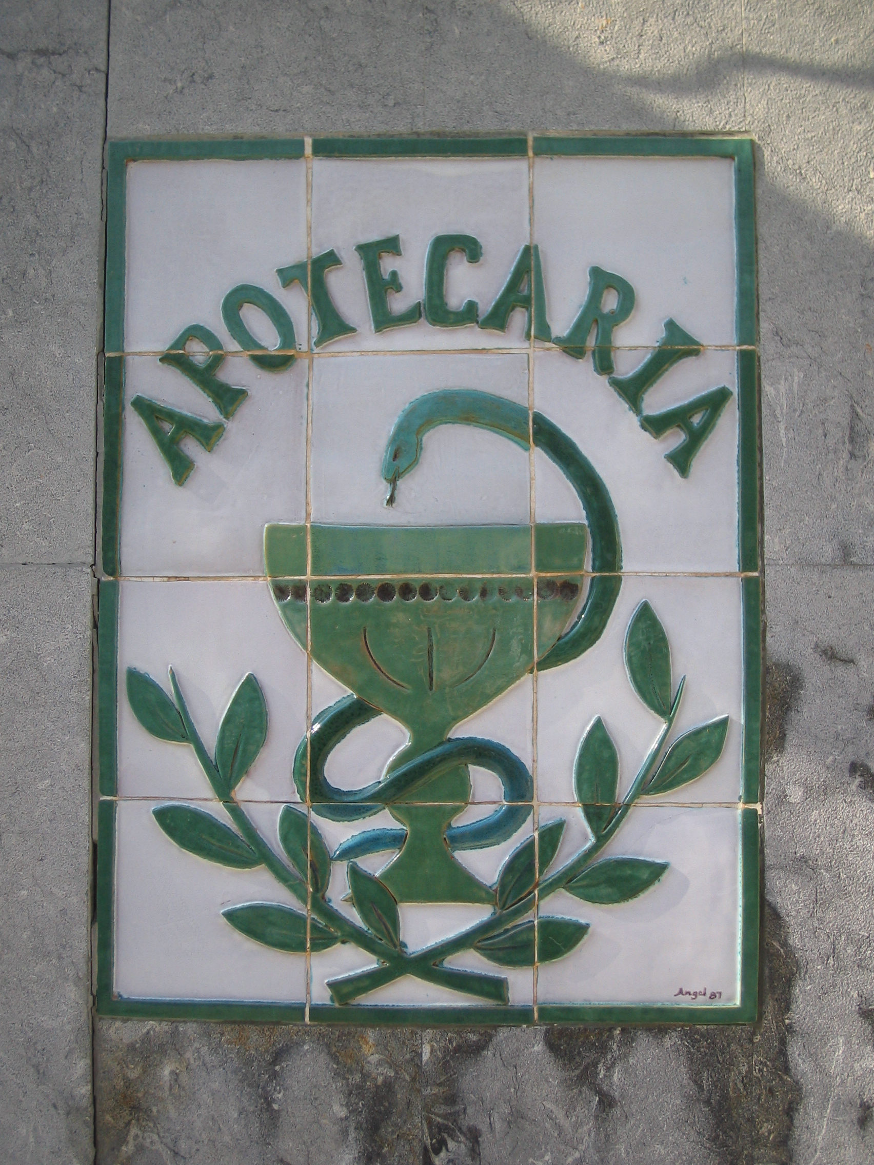 A chemist tiled sign wich reads `apotecaria` meaning apothecary in spanish.